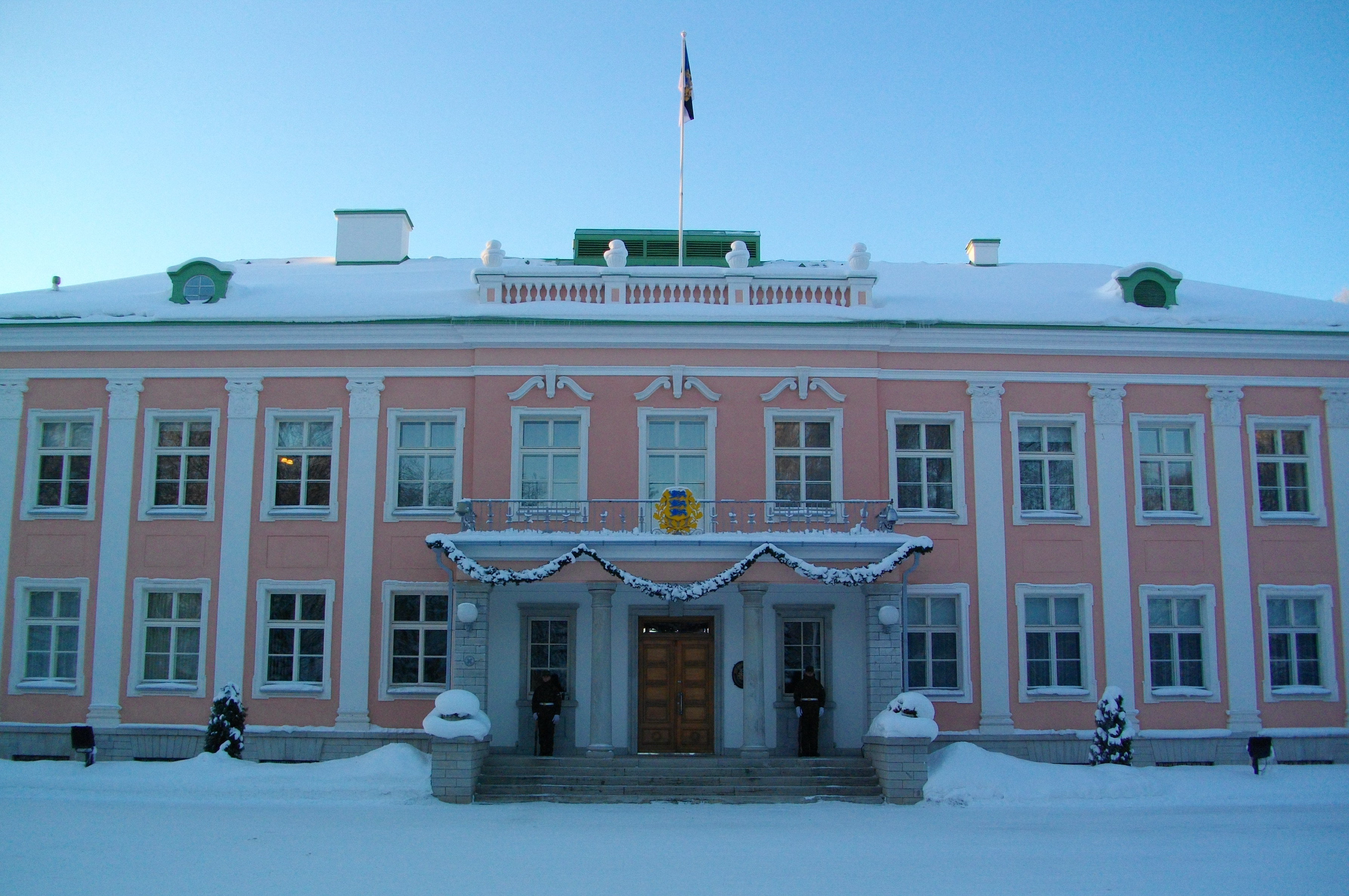 residence of the Estonian President in Kadriorg